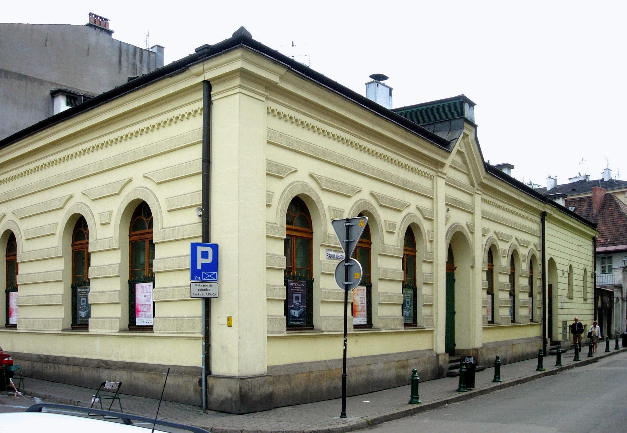 The former Bne Emuna prayer house on Meiselsa Street in Kraków